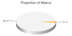 This chart represents the proportion of population of Meerut district in the population of Uttar Pradesh state as per the 2011 census of India.